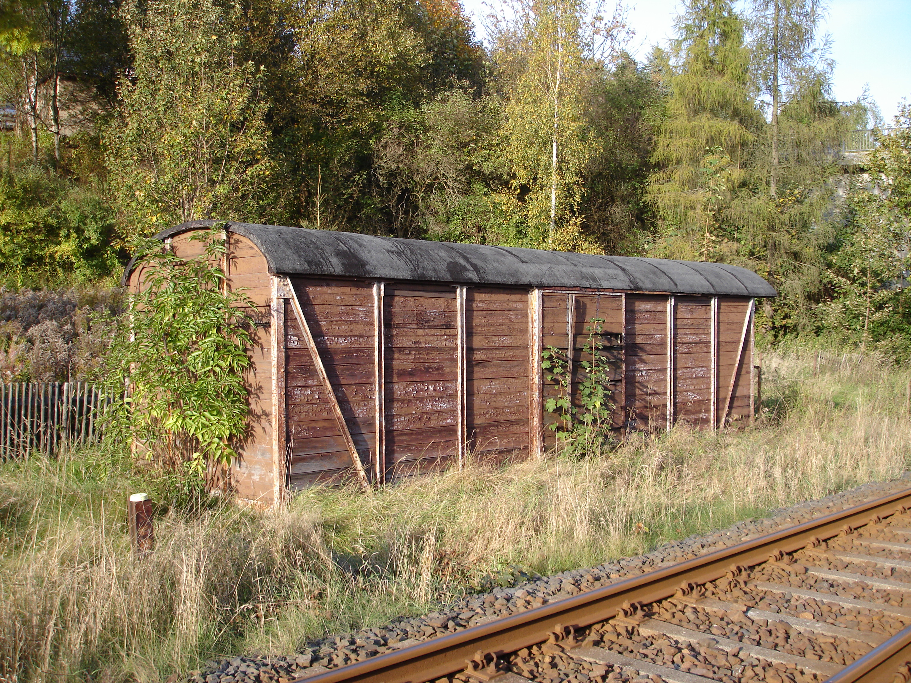 station Brunndöbra, Saxony, Germany